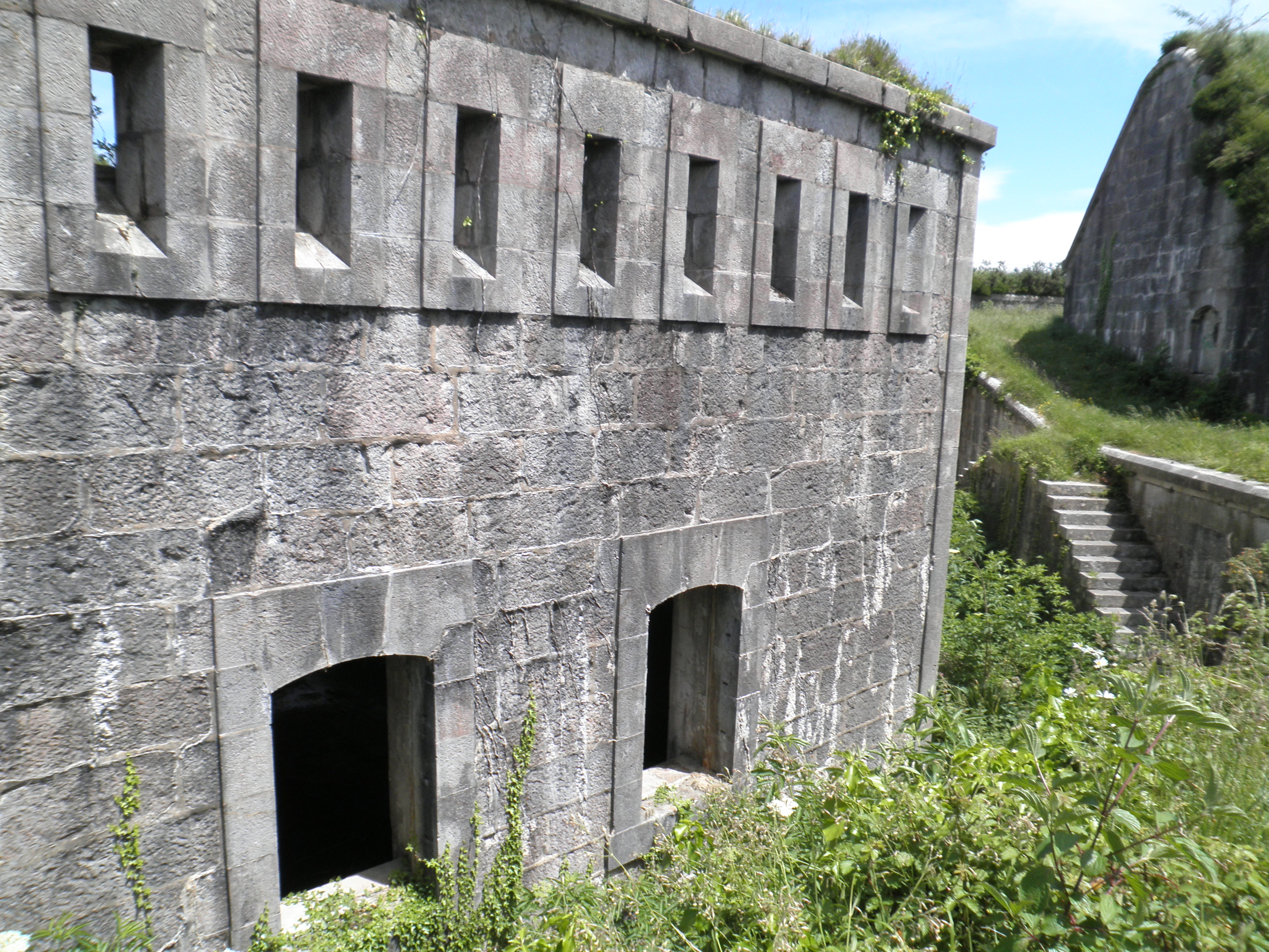 Fortress of Txoritokieta